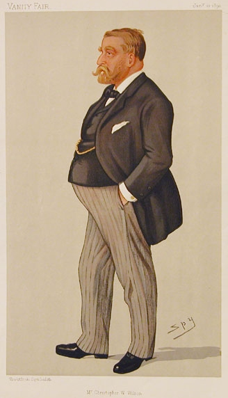 Caricature of Christopher Wyndham Wilson.